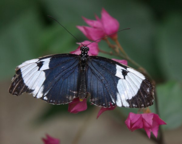 Cydno Longwing, aka Blue-and-White Longwing (Heliconius cydno), 12th Live Butterfly Exhibit, Brookside Gardens, Wheaton MD